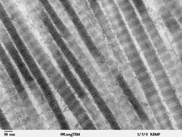 Transmission electron microscope image of a thin section cut through an area of mammalian lung tissue. The high magnification image of connective tissue area shows fibers of Collagen Type I. JEOL 100CX TEM